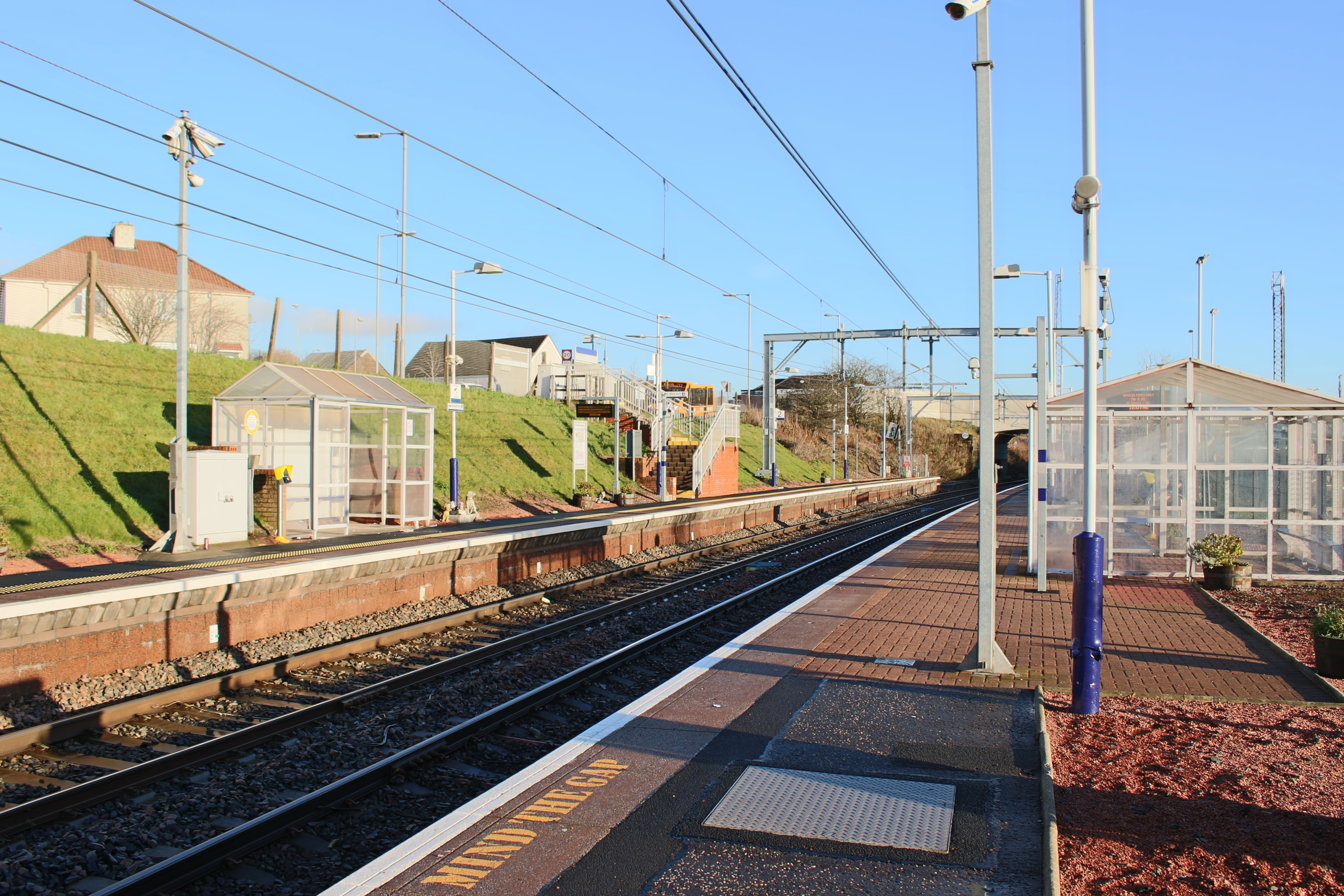 Sunny Skies At Bargeddie Railway Station